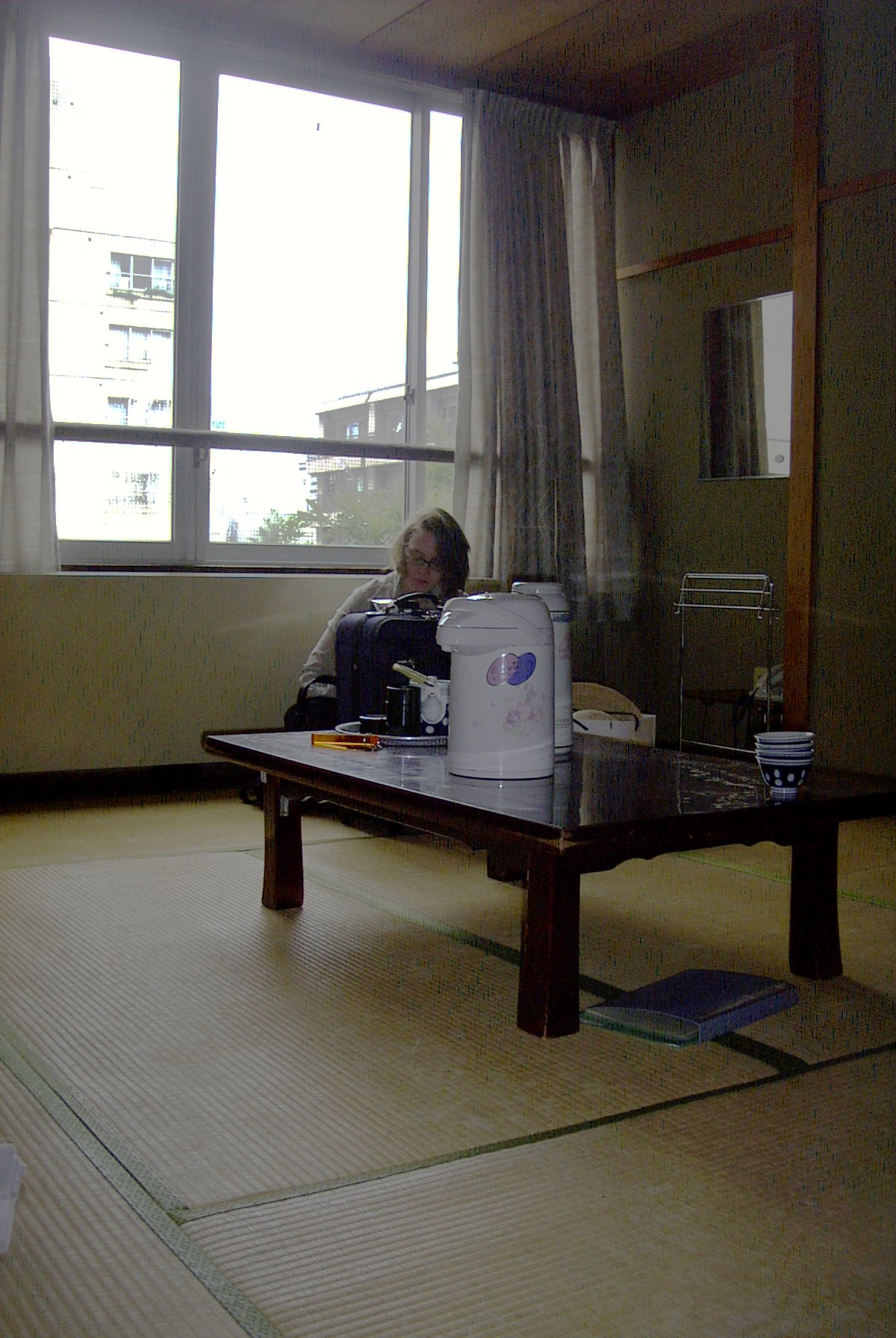 Aichi Ken Seinen Youth Hostel in Nagoya, Japan. Photo taken by me on July 4, 2006.